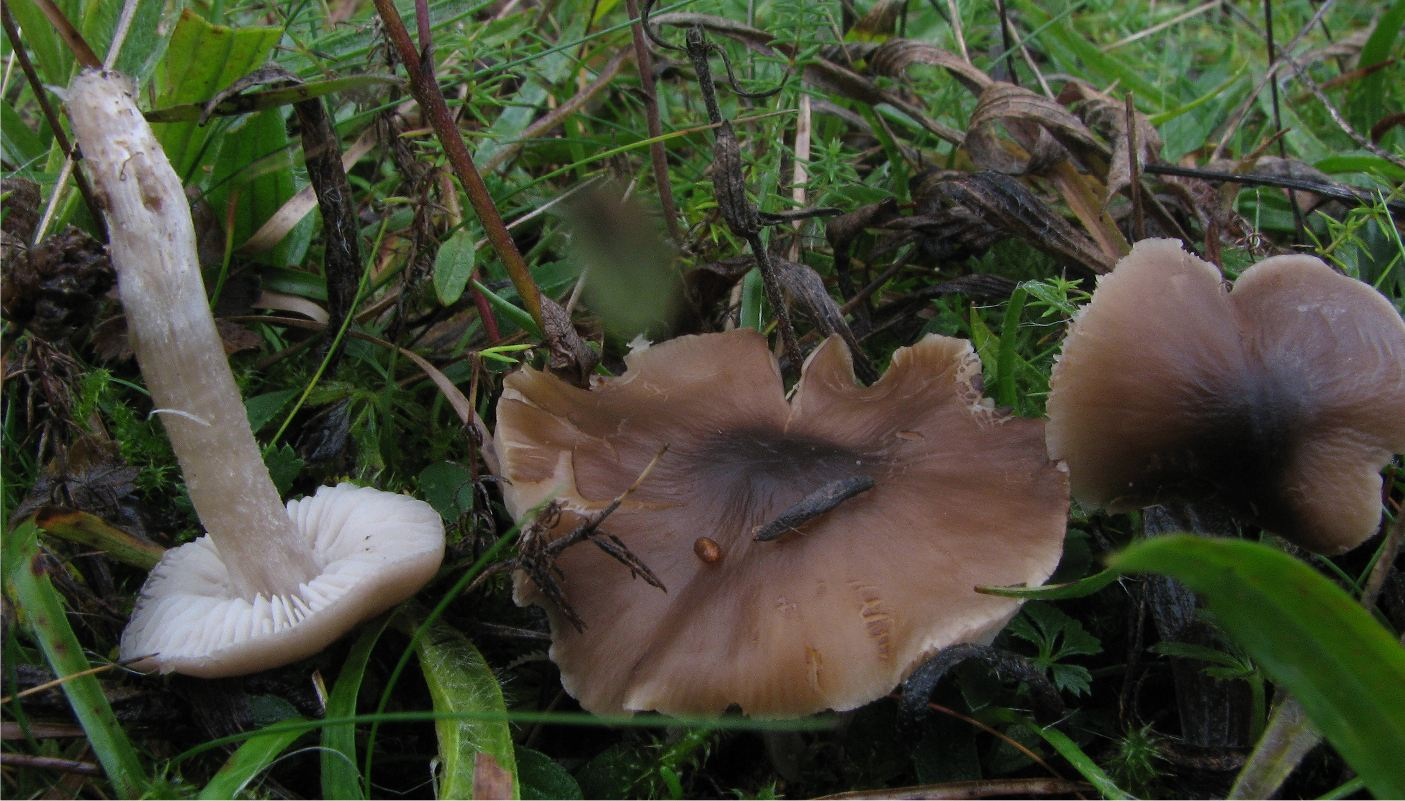 Fruit bodies of the fungus Dermoloma cuneifolium (Fr.: Fr.) Bon. Specimens from Gotland, Sweden.